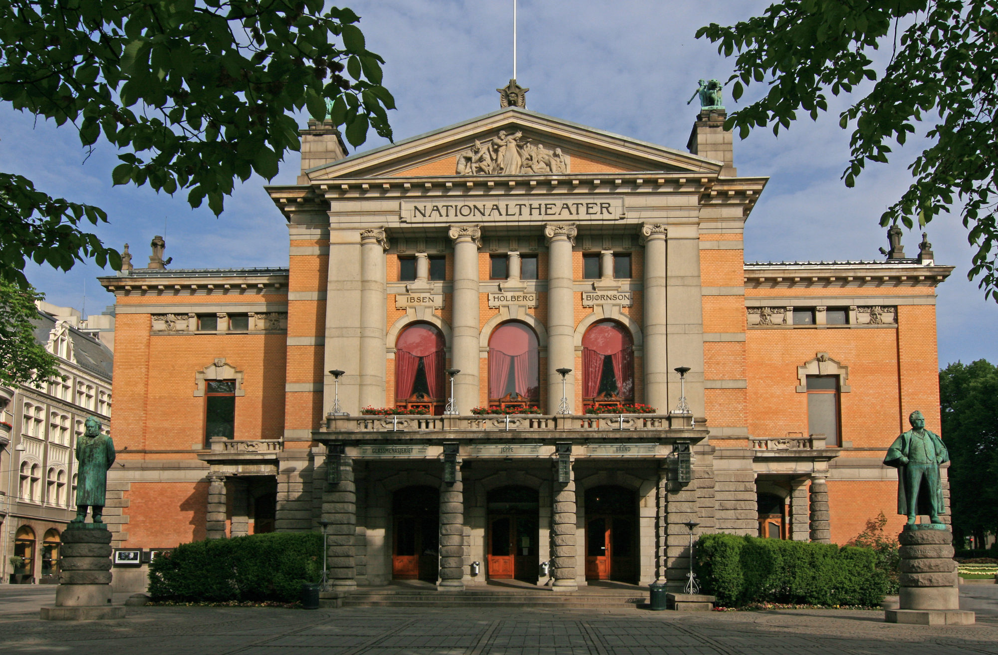 Nationaltheatret (the National Theatre), Oslo. Main entrance, east front.